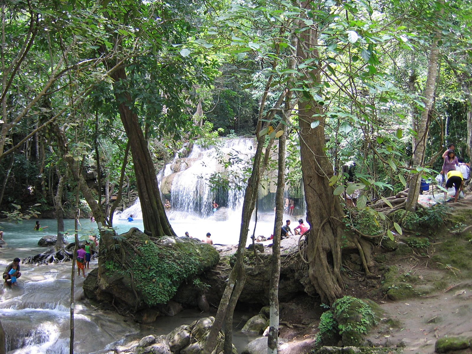 Level 2 of Erawan Fall, Amphoe Si Sawat, Kanchanaburi Province, Thailand